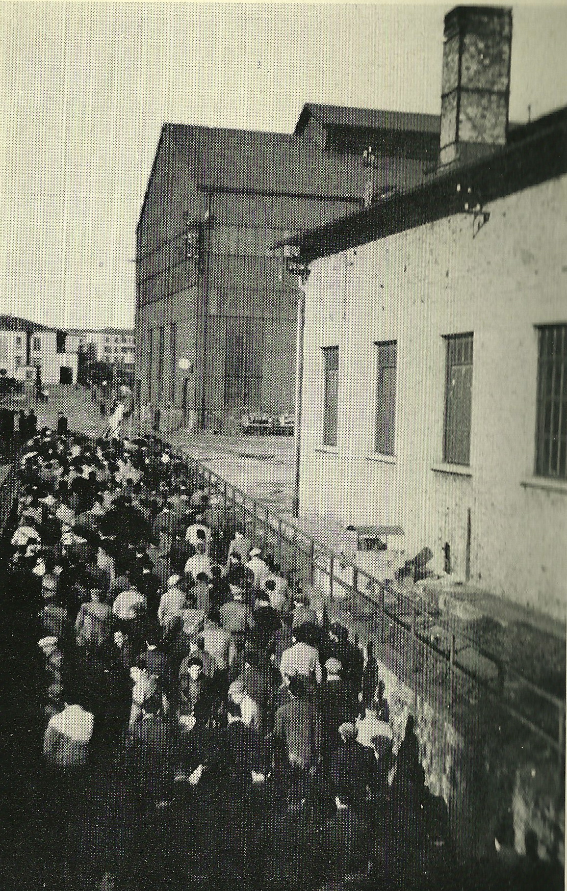 Workers of the steel mill "La Magona" in Piombino (province of Livorno, Tuscany) meet in assembly for deciding about the occupation of the steel mill in order to prevent its lock out.